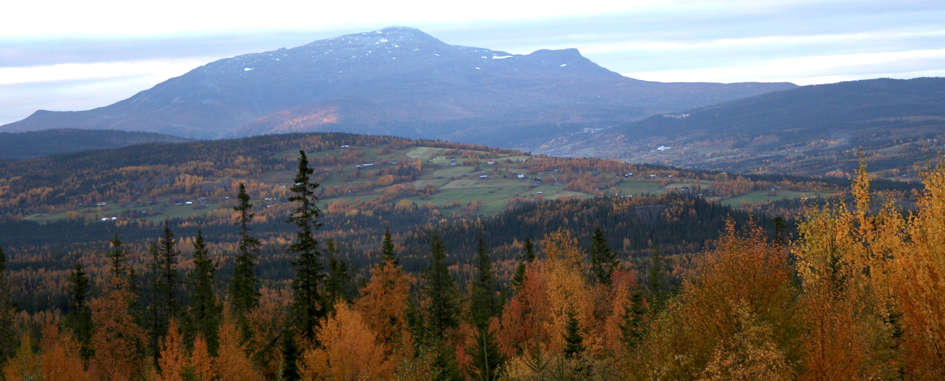 A picture of the Swedish village Edsåsen and the hill Edsåshöjden. In the background is the mountain Åreskutan.